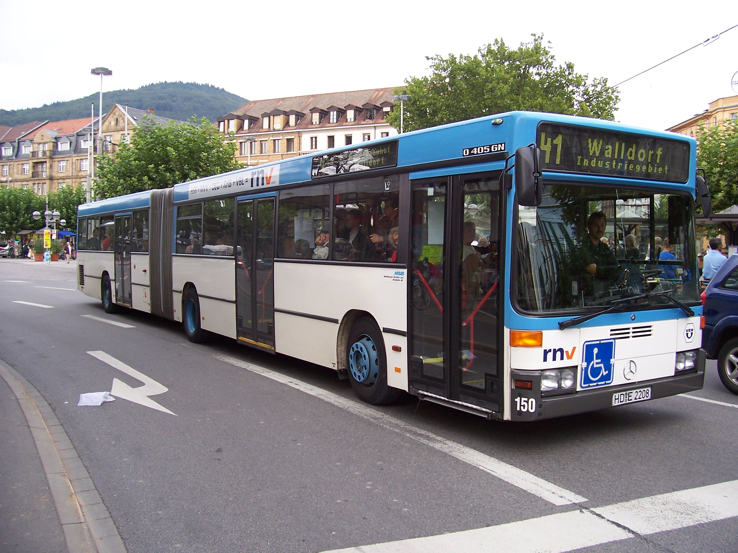 Ein Mercedes-Benz O 405 GN bus in Heidelberg, Germany